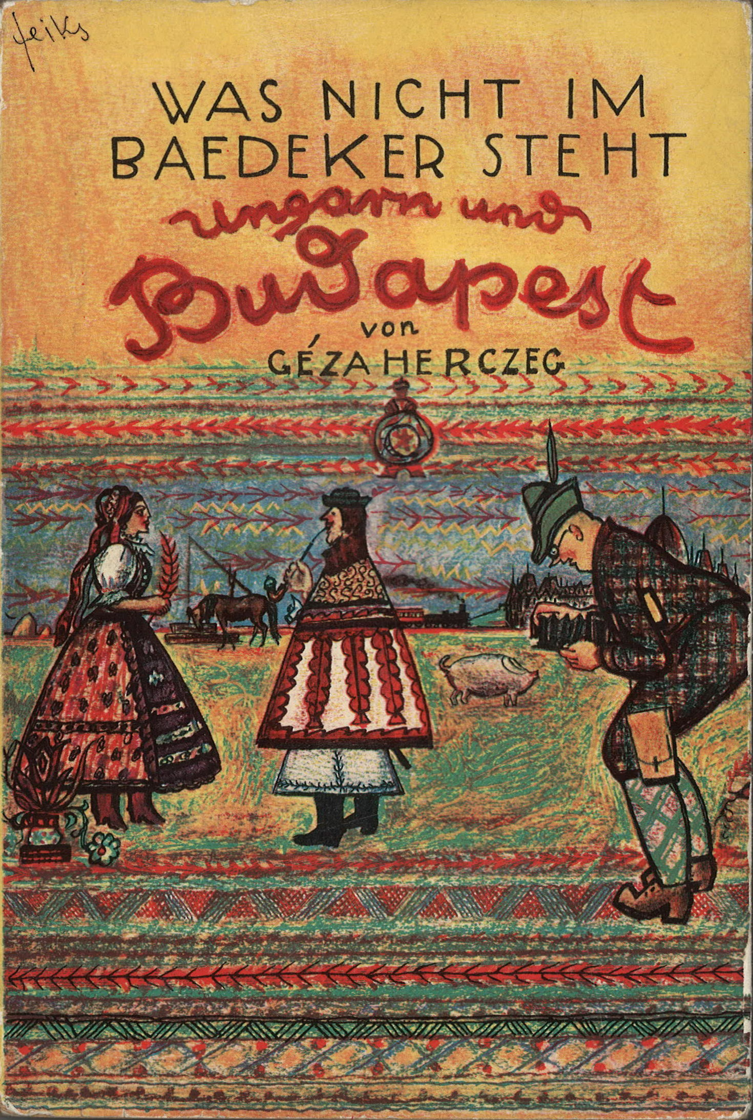 Book cover of: Was nicht im "Baedeker steht". Das Buch von Ungarn und Budapest (1928). Budapest